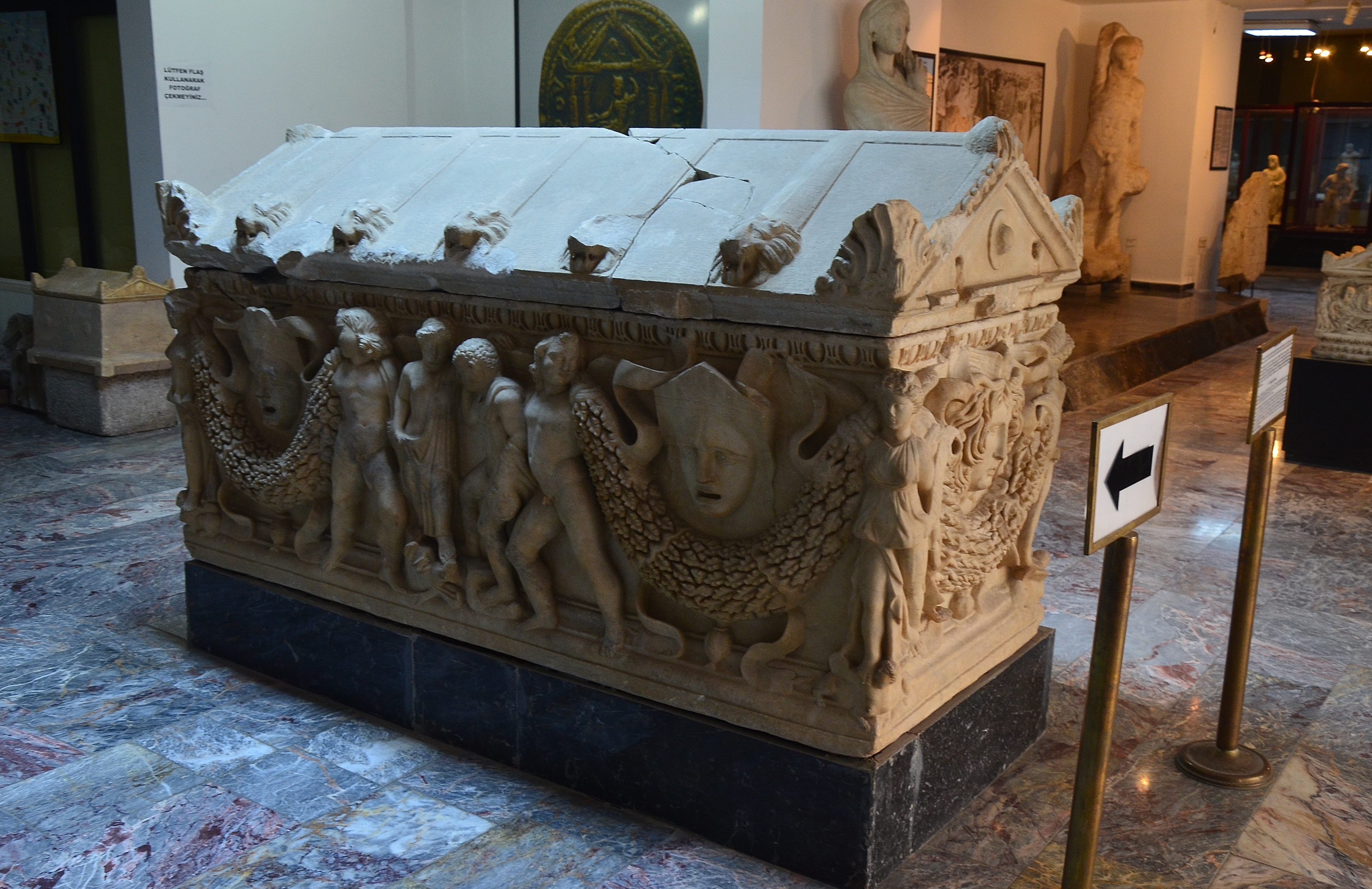 Ancient Roman (2nd century AD) sarcophagus of Apamea (Phrygia), today Dinar, at Afyonkarahisar Archaeological Museum in Afyonkarahisar, Turkey